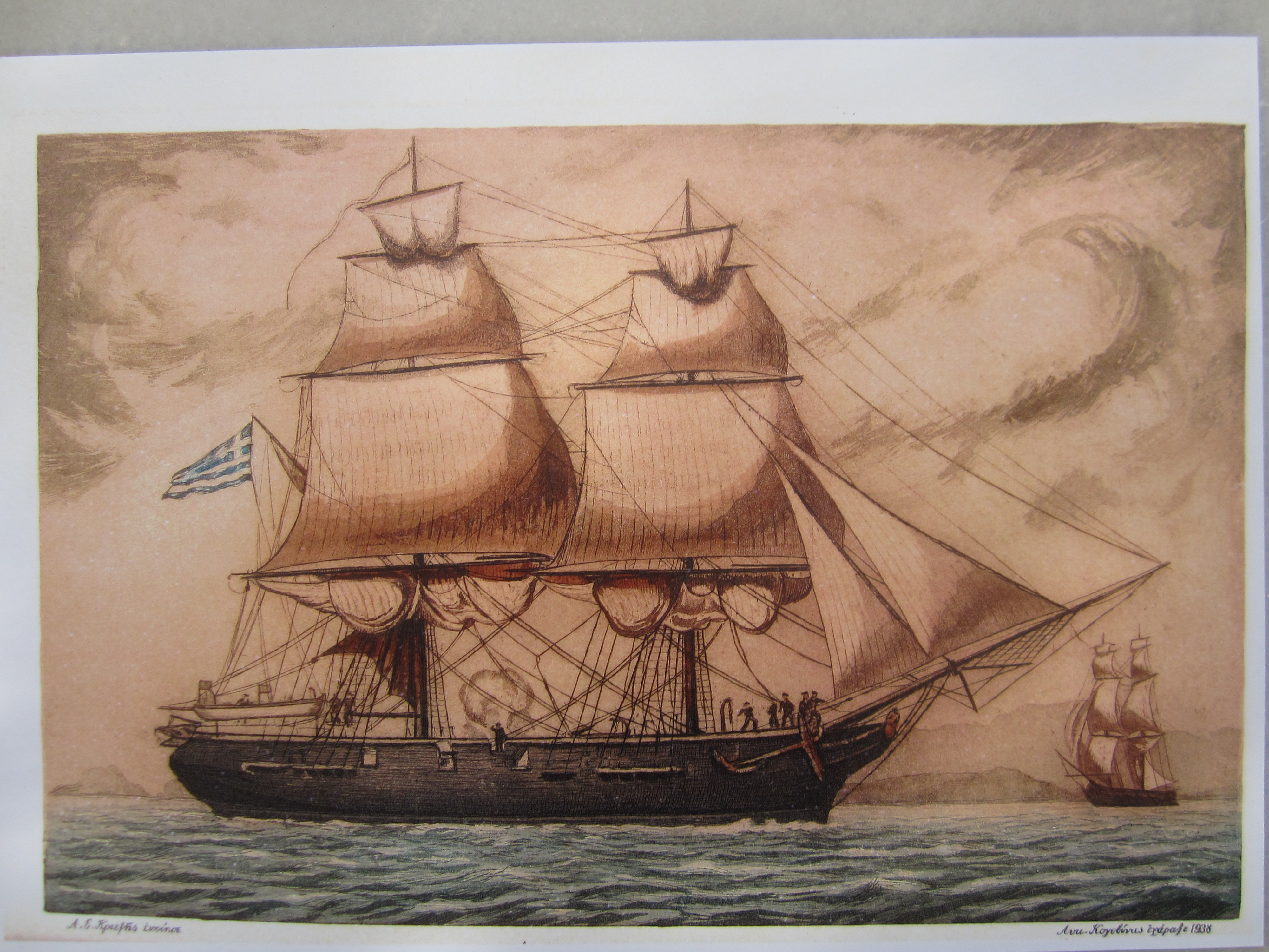 "Fighting Greek Ship" (1938), graver Lykourgos Kogevinas (1887-1940), from the album "Ships of Greek Revolution" (1938)